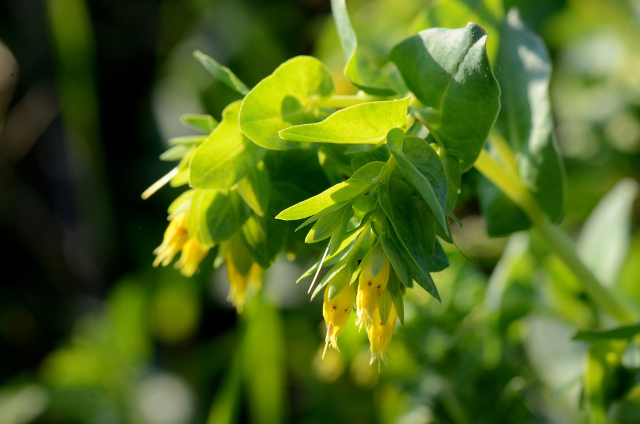 Cerinthe minor